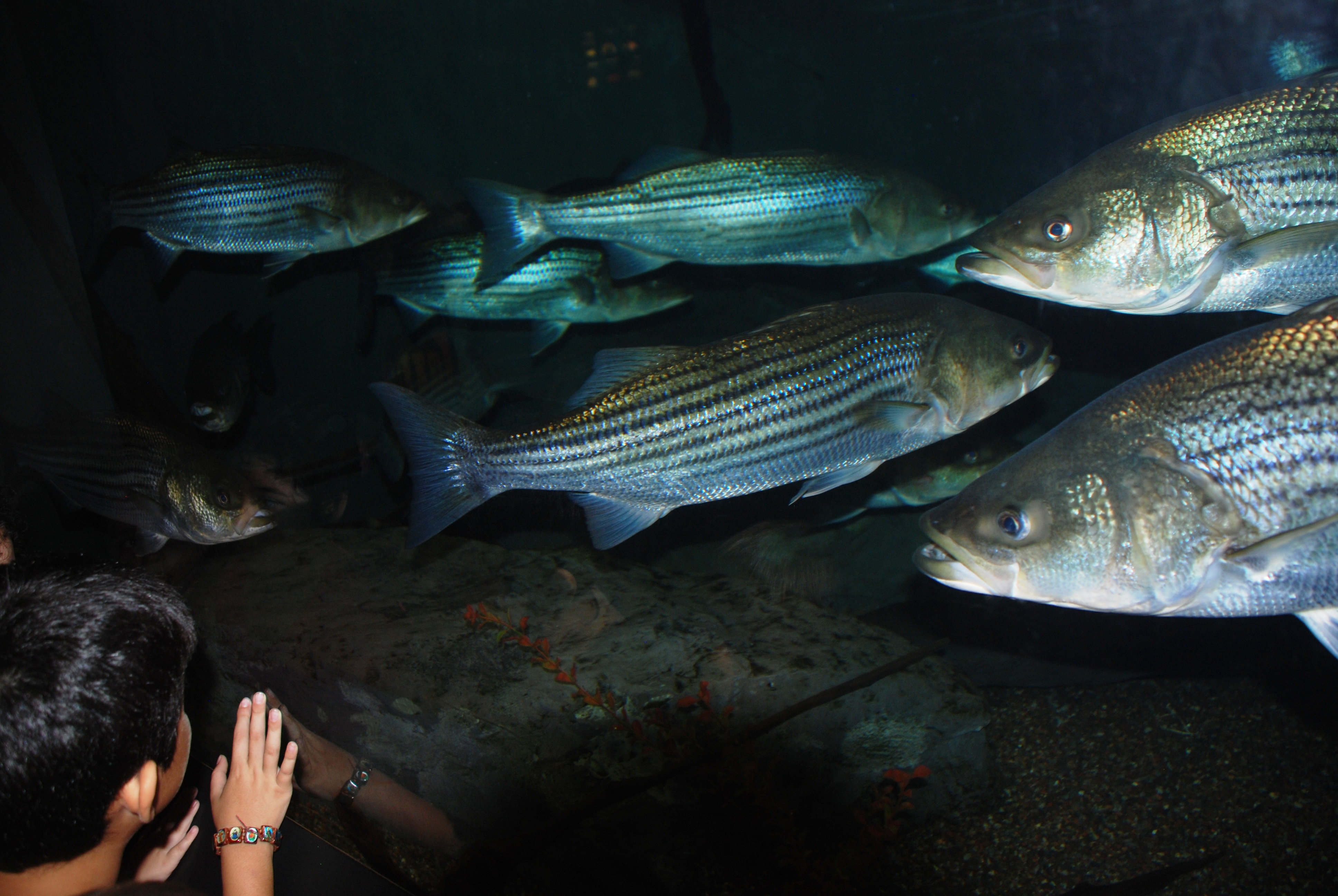 Kids watching Striped bass (Morone saxatilis) in National Aquarium in Baltimore.